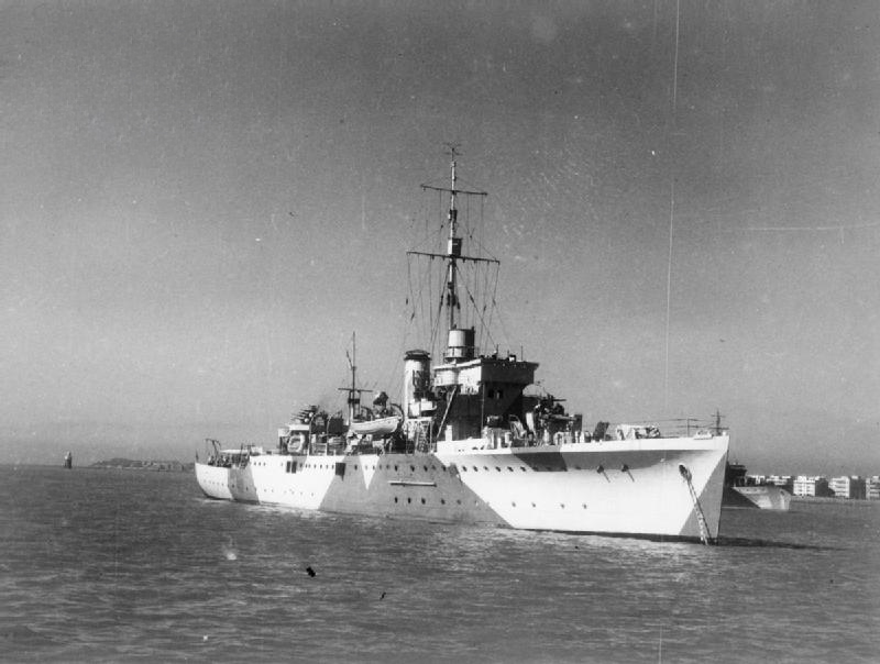 Photograph of British sloop HMS Falmouth.